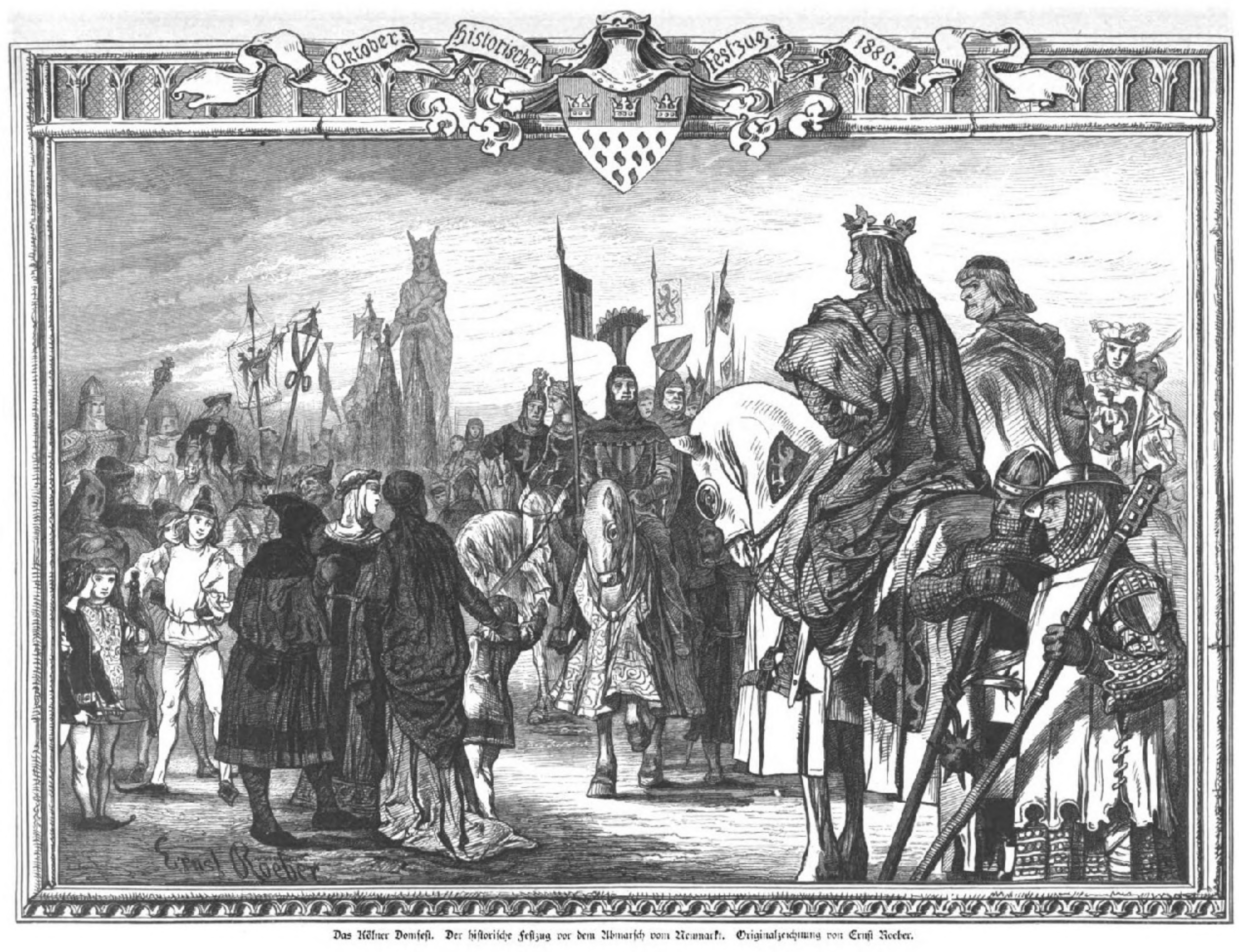 Das Kölner Domfest. Der historische Festzug vor dem Abmarsch vom Neumarkt, Ernst Roeber, 1880. Illustration of the parade on occasion of the finishing of Cologne Cathedral, October 16th, 1880.